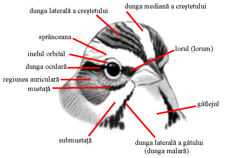 Head markings in birds